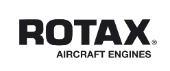 Logo